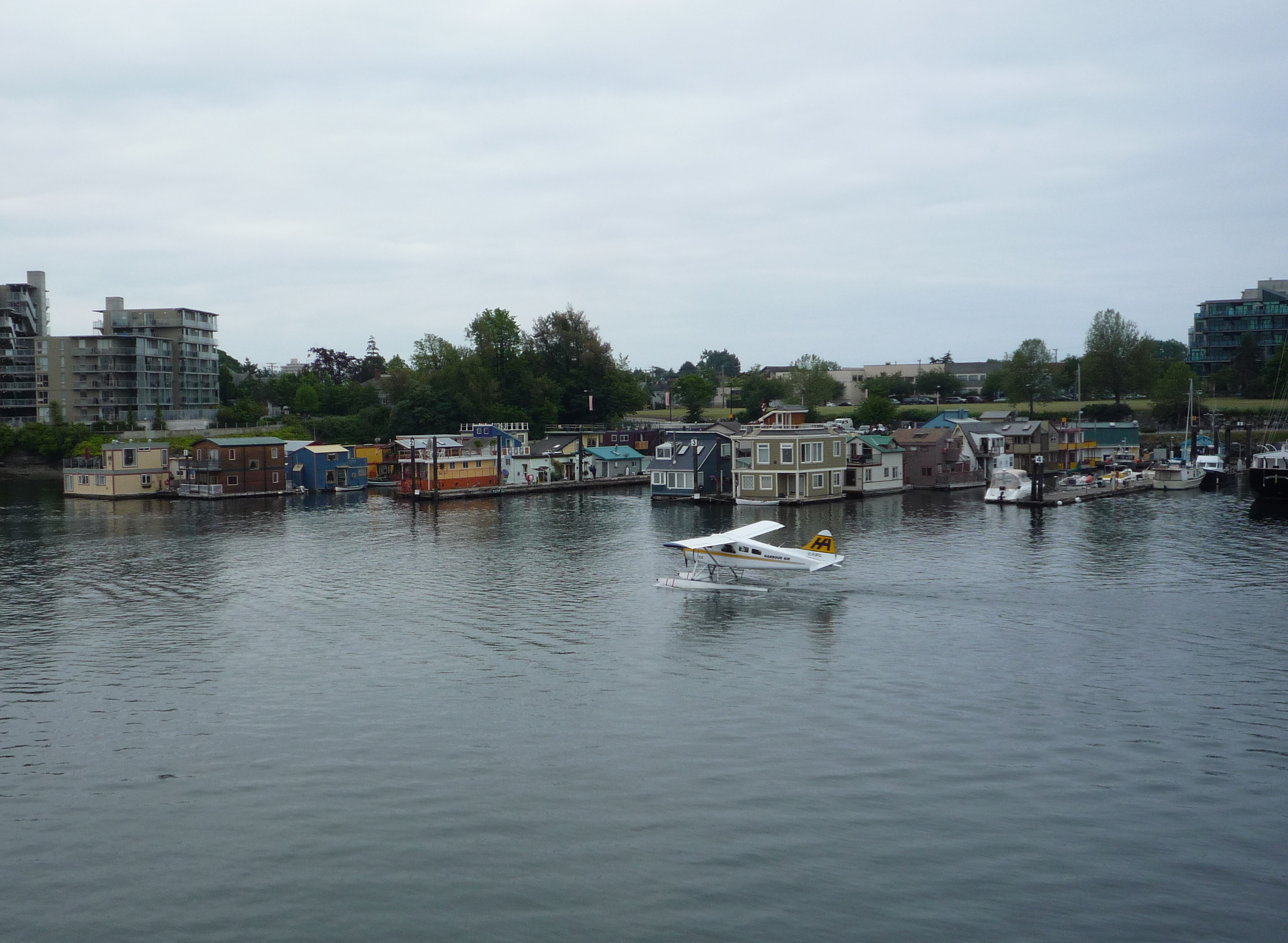 Fisherman's Wharf, on the Inner Harbour of Victoria, British Columbia, Canada. It is popular with tourist for all its houseboats (some of which are cafes) and views of the harbour and seaplanes.